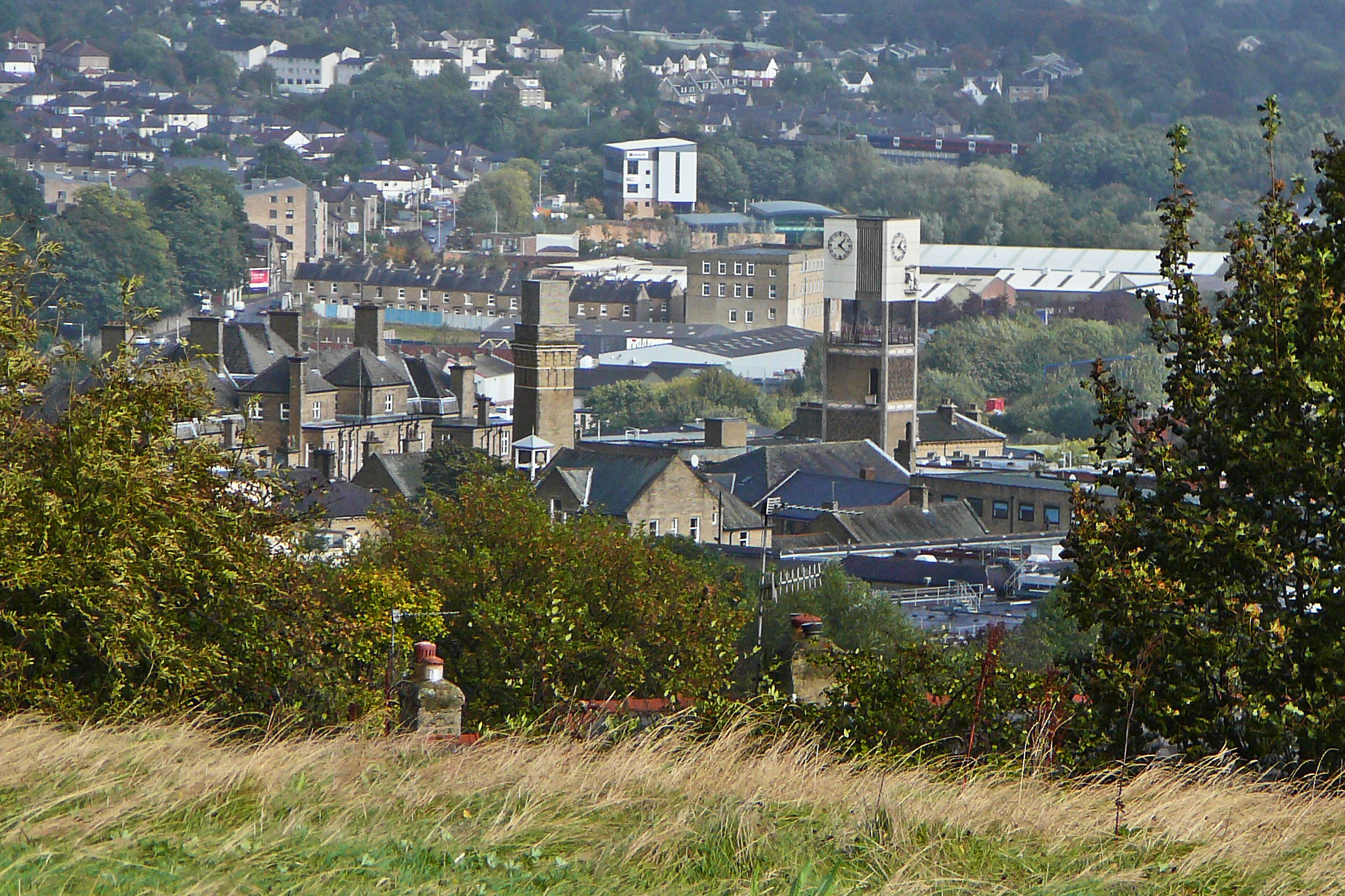 An overview of Shipley, Bradford, West Yorkshire taken on Saturday the 3rd of October 2009.